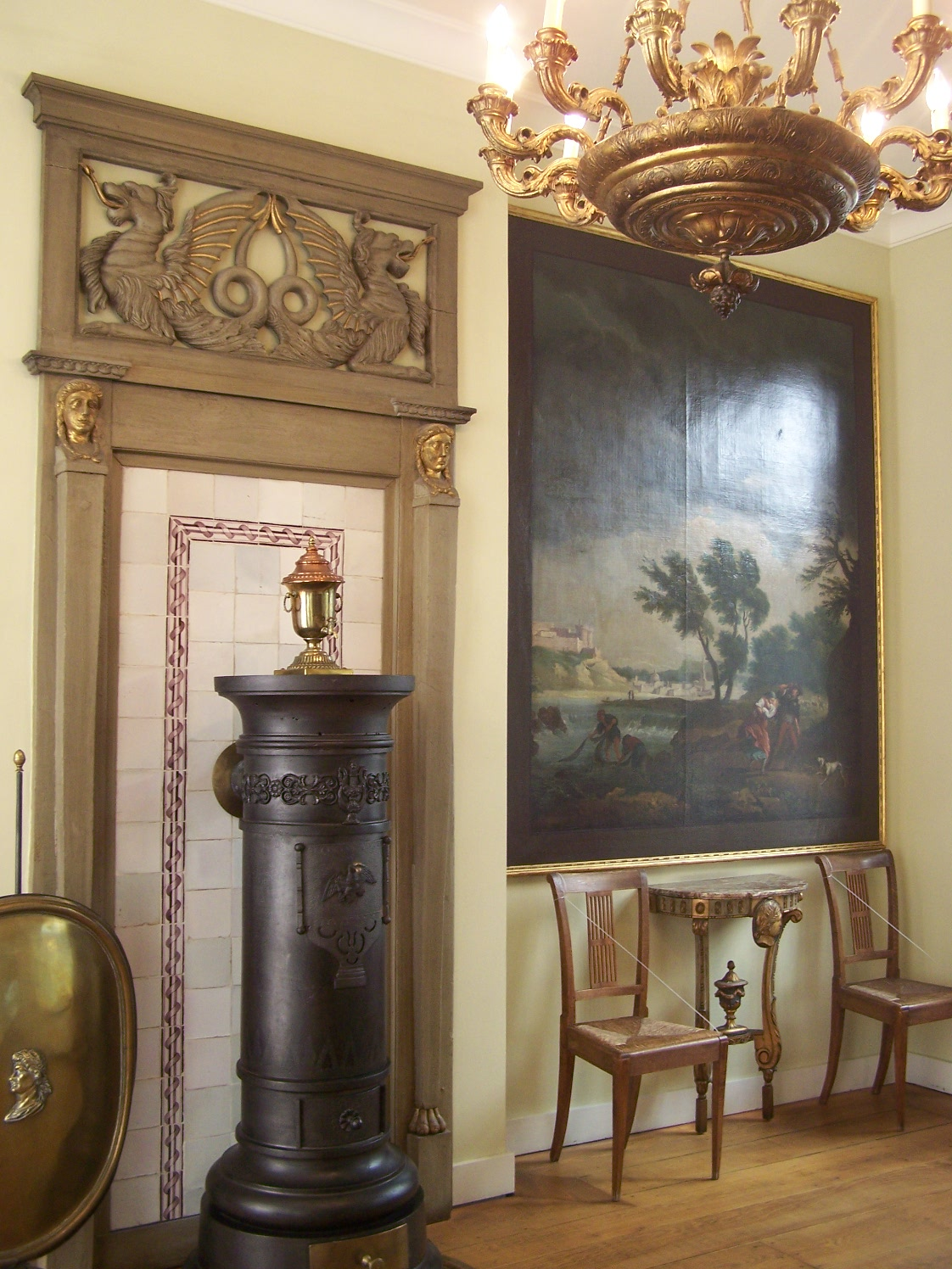 round iron stove framed by a door bezel common while the period of empireness, pedestral table and oak chairs. Canvas painting from the late 18 century